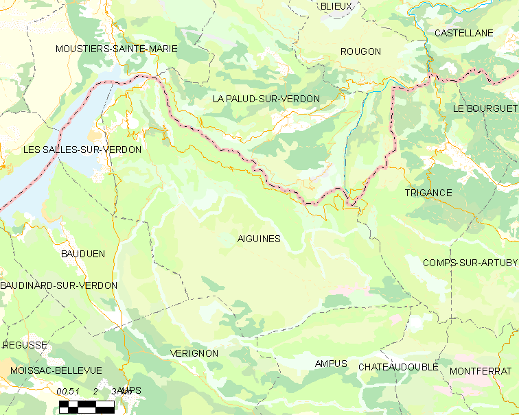 Map of French municipality Aiguines